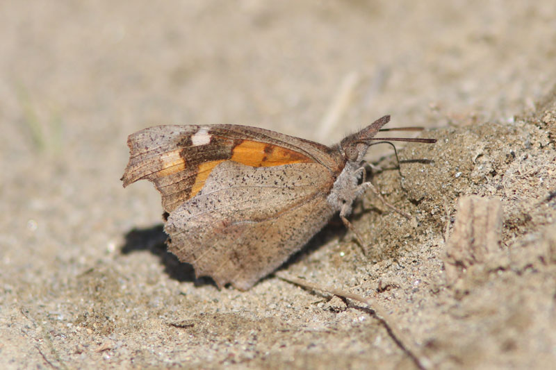 Libythea celtis. Location: France - Languedoc/Rousillon